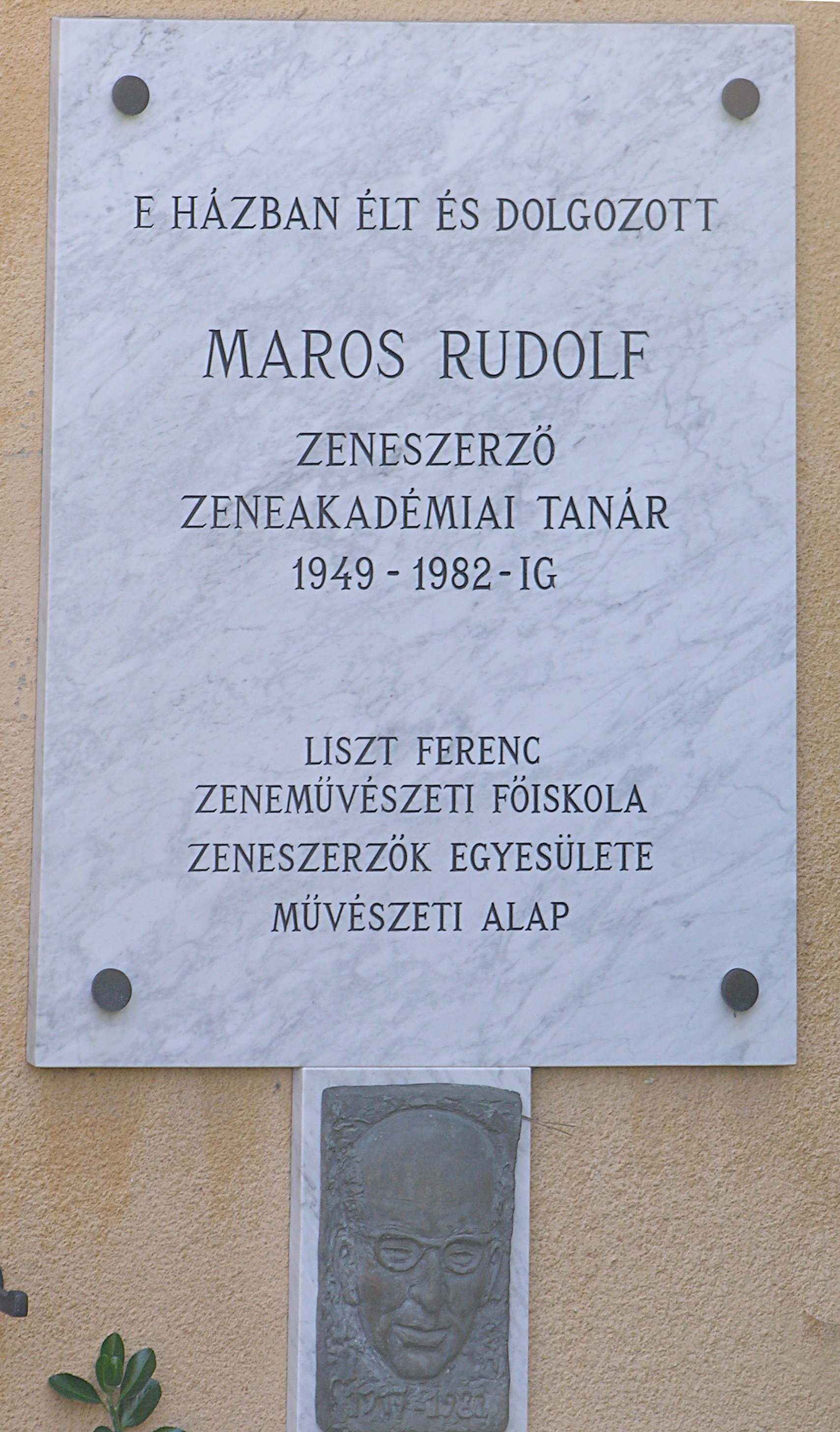 Commemorative plaque of Rudolf Maros in Budapest District II, Bimbó Street No 140